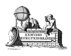 Exlibris of Georg Friedrich Brandes